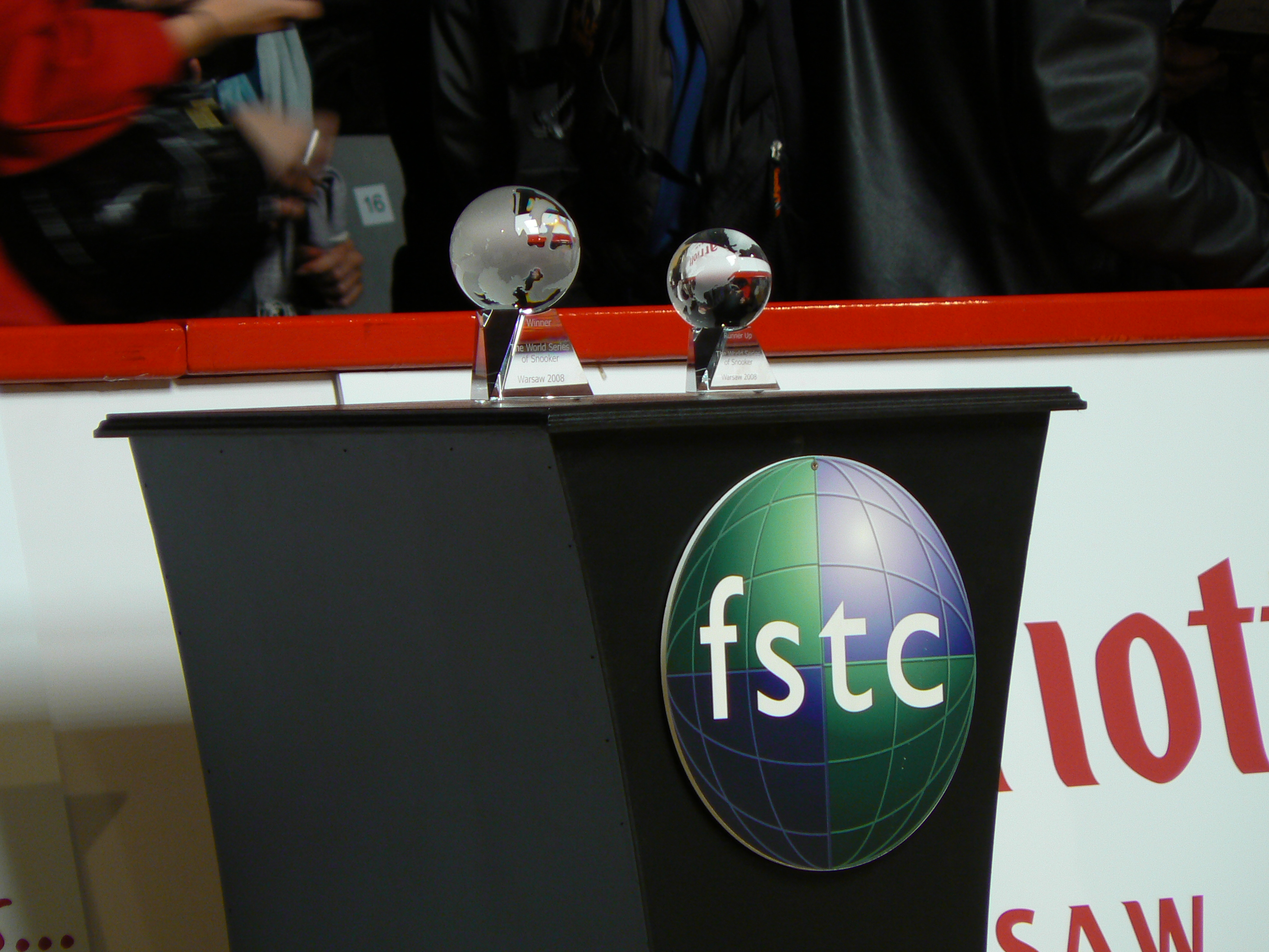 Rewards in World Series of Snooker 2008 Warsaw.